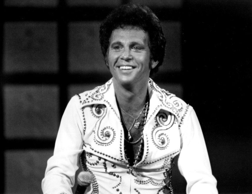 Photo of Bobby Vinton as the host of the 1977 Miss USA beauty pageant.